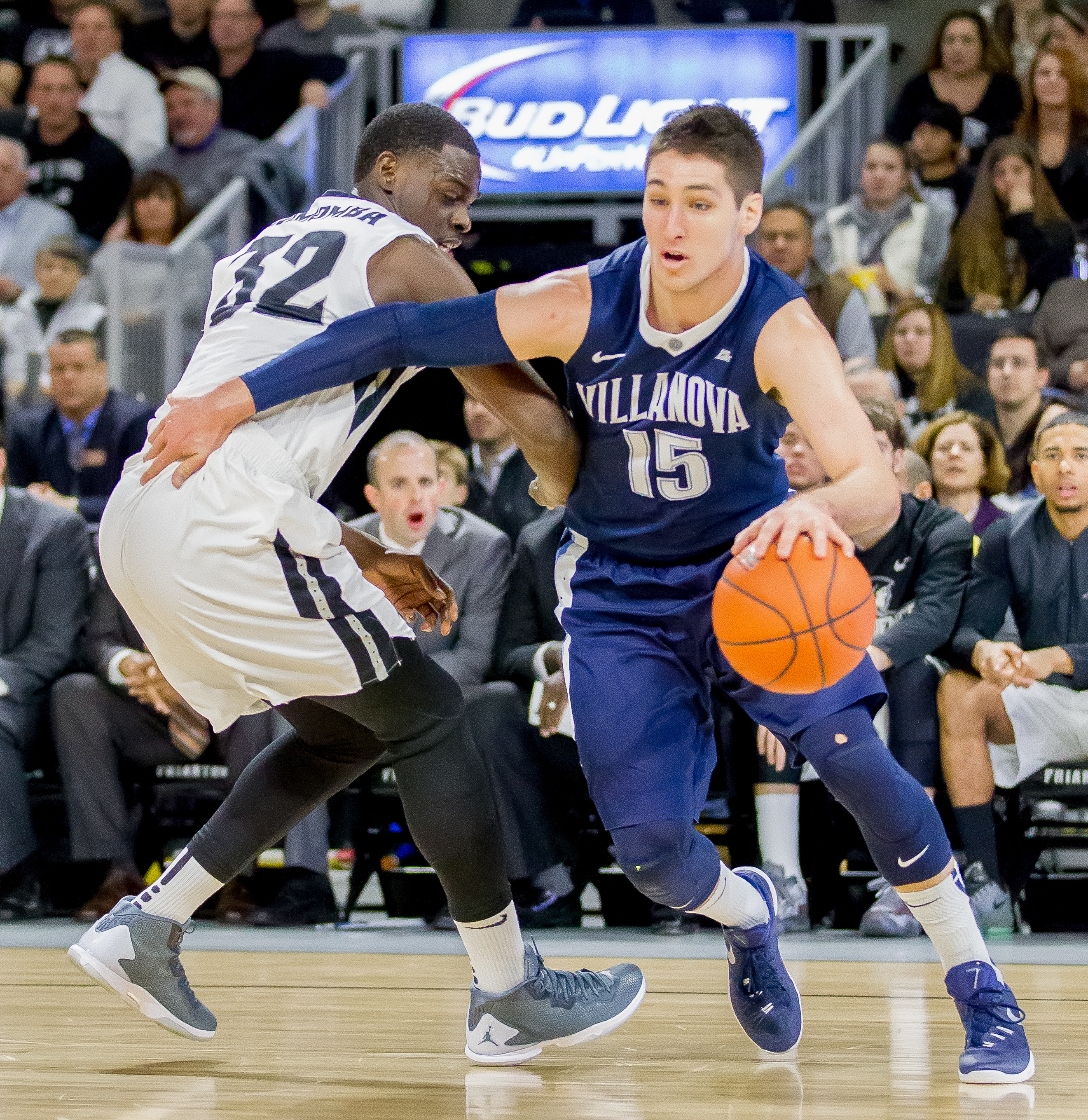 Ryan Arcidiacono of Villanova dribbles vs Providence, Feb 6, 2016